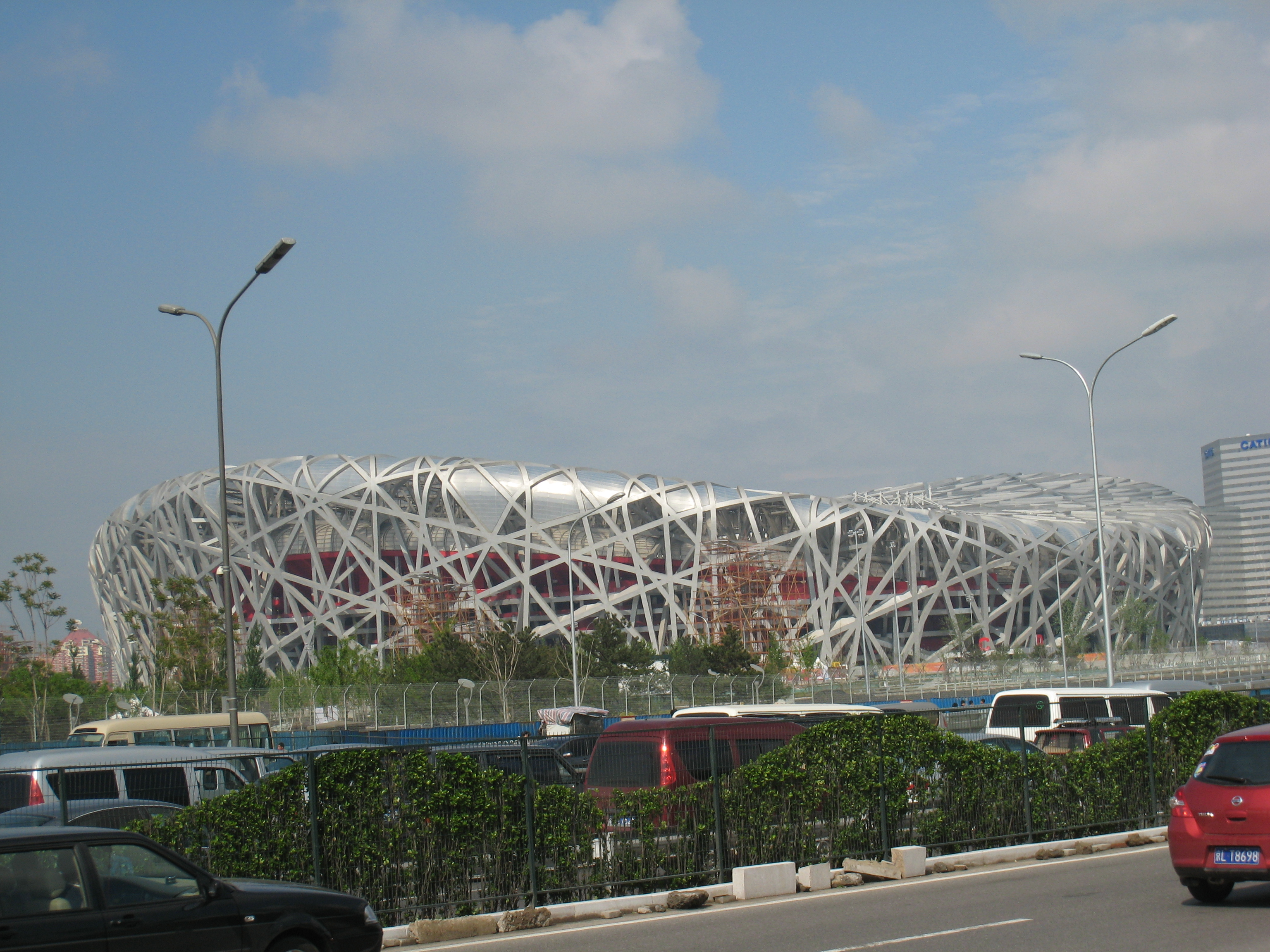 The Beijing National Stadium, nicknamed the "bird's nest", April 2008